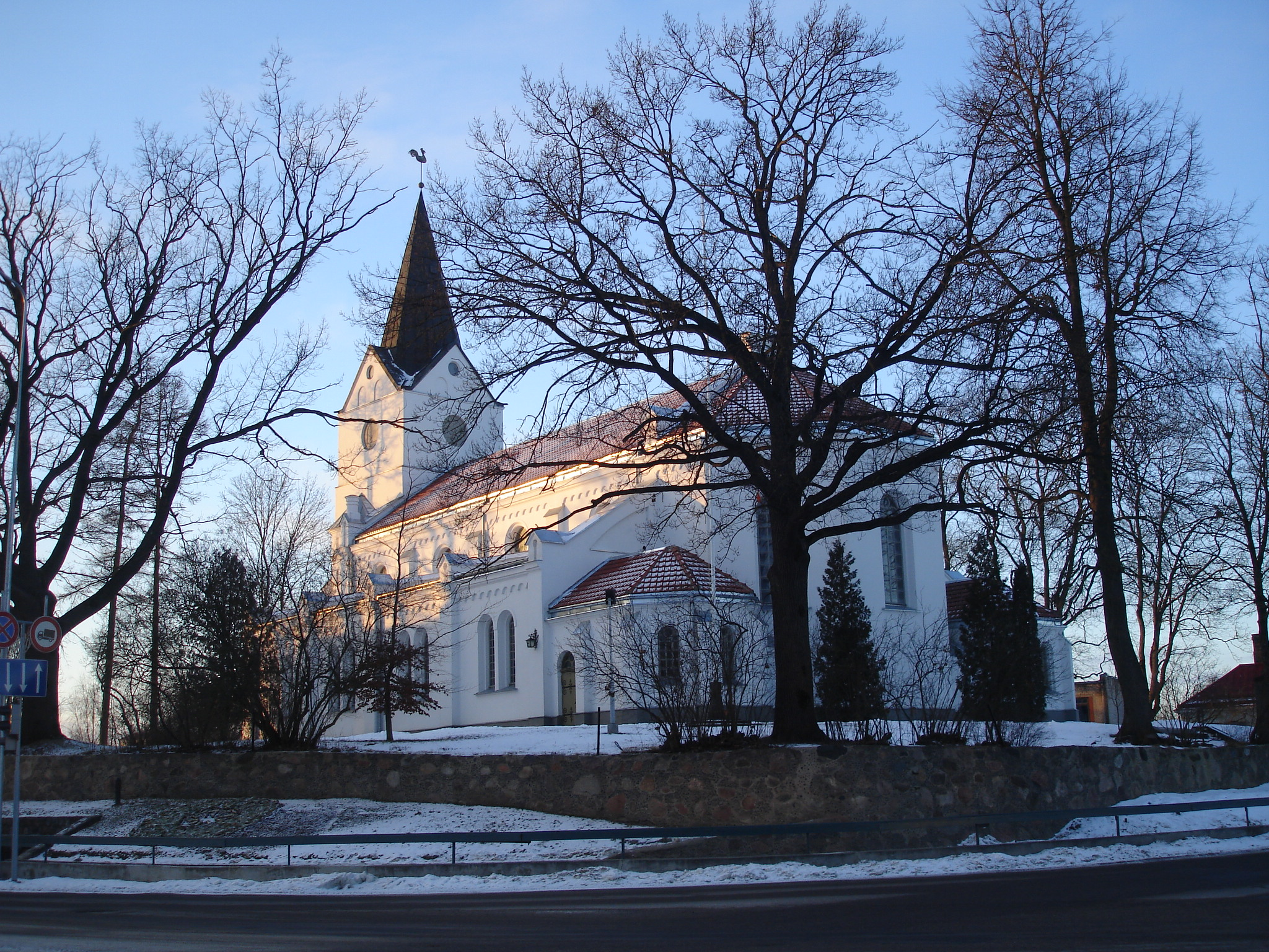 Saldus St. John's church